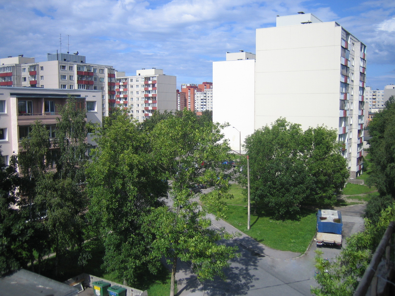 Lasnamäe, Paul Pinna Str